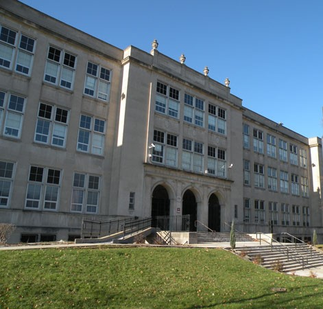 Picture of the front of Westinghouse High School located at 1101 North Murtland Street in the Homewood West neighborhood of Pittsburgh, Pennsylvania, on December 12, 2009. The school was built in 1917 to honor George Westinghouse, and is listed on the National Register of Historic Places. Architects: Ingham & Boyd. Architectural style: Classical Revival. The historical marker near the front of the building says the following: "William 'Billy' Strayhorn (1915-1967) - Jazz composer and arranger. Collaborator with Duke Ellington. Billy Strayhorn's "Take the A Train" became the Ellington orchestra's theme song. A graduate of Westinghouse High School, Strayhorn had his musical talents nurtured here." Pennsylvania Historical and Museum Commission 2005.[1] Other notable alumni of the school include: Erroll Garner (jazz pianist), Ahmad Jamal (jazz pianist), Frank Cunimondo (jazz pianist), and Maurice Stokes (NBA player in the Basketball Hall of Fame).